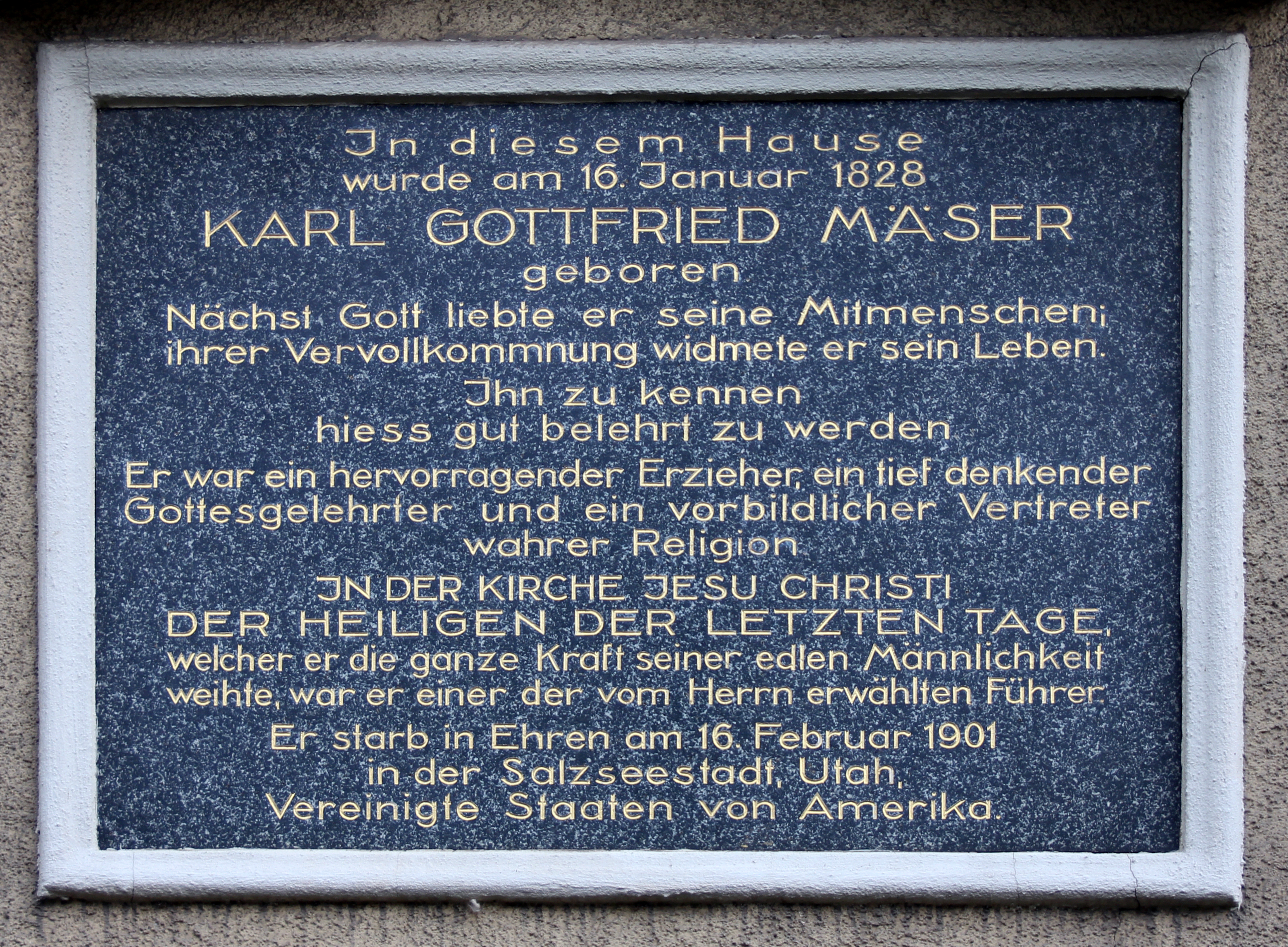 Memorial plaque, Karl Gottfried Mäser, Zscheilaer Straße 10, Meißen, Germany